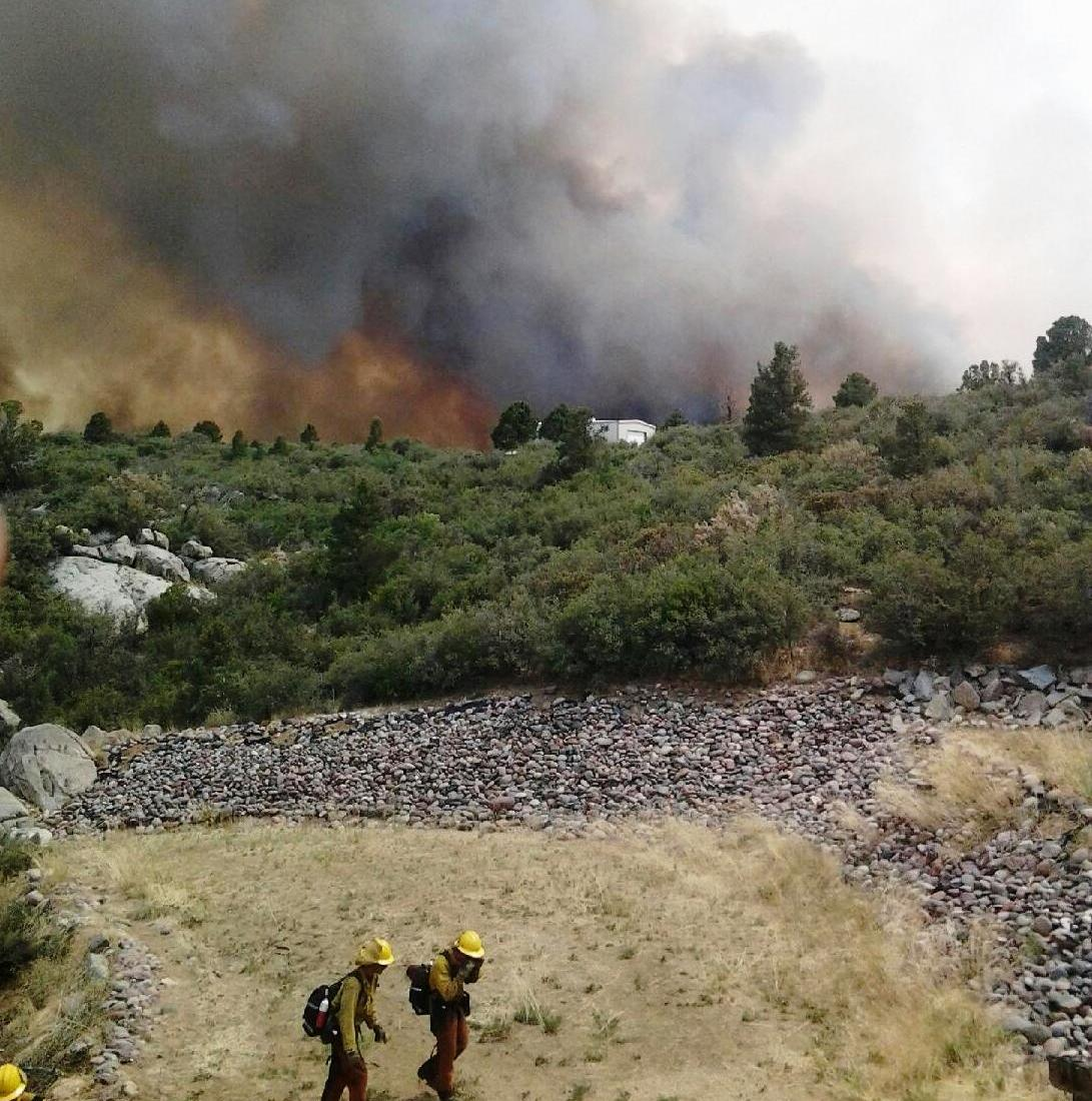 The Yarnell Fire began on Jun. 28, 2013 from a lightning strike and is approximately 1.5 miles from Yarnell, AZ. U.S. Forest Service photo.